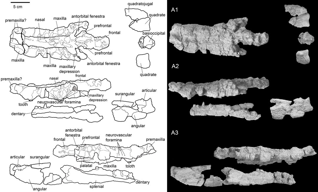 1. Adult crocodilian “Sunosuchus” cf. thailandicus, PIN 4174‒1 from Shar Teeg, Mongolia. rostrum, quadrates, and occipital condyle in dorsal aspect (A1); rostrum and mandible in left (A2), and right (A3) aspects, both photograph and diagrammatic interpretation. Scale bar is 5 cm.